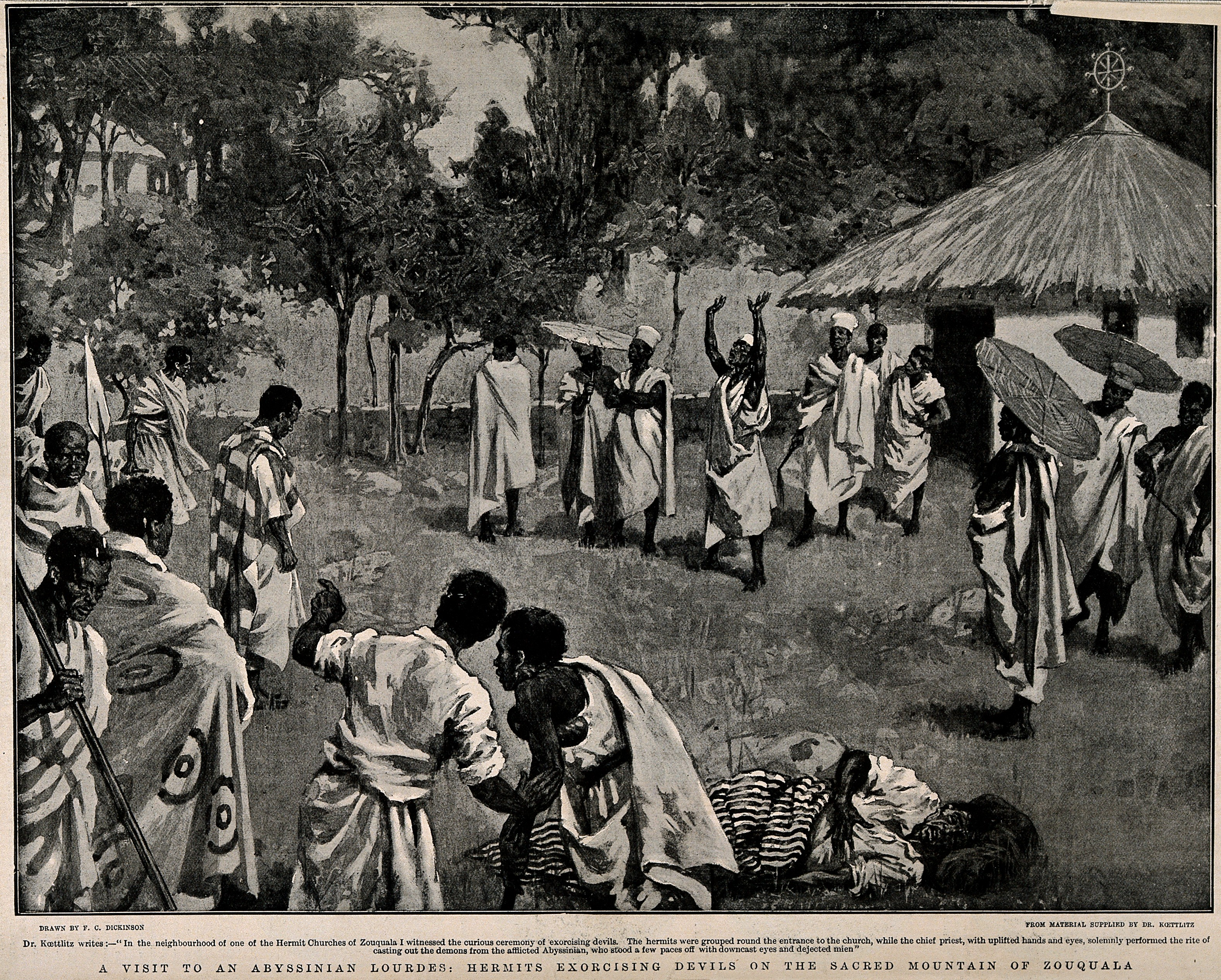 Mount Zouquala, Abyssinia: hermits exorcising devils. Process print after F.C. Dickinson after Dr. Koelitz. Iconographic Collections Keywords: Koelitz; F.C. Dickinson